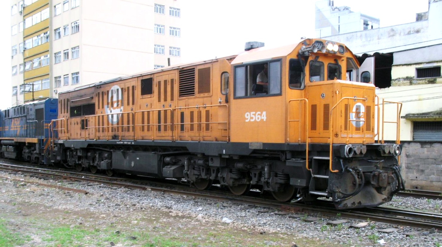 Diesel-Electric Locomotive CSR SDD8 C-C # 9564 - built by China South Locomotive and Rolling Stock to FCA in 2008 currently boasting the second pattern painting (orange). Barra Mansa - RJ - Brasil.